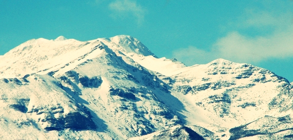 Pico Alcornon de Busmori visto desde el pueblo de Cerredo